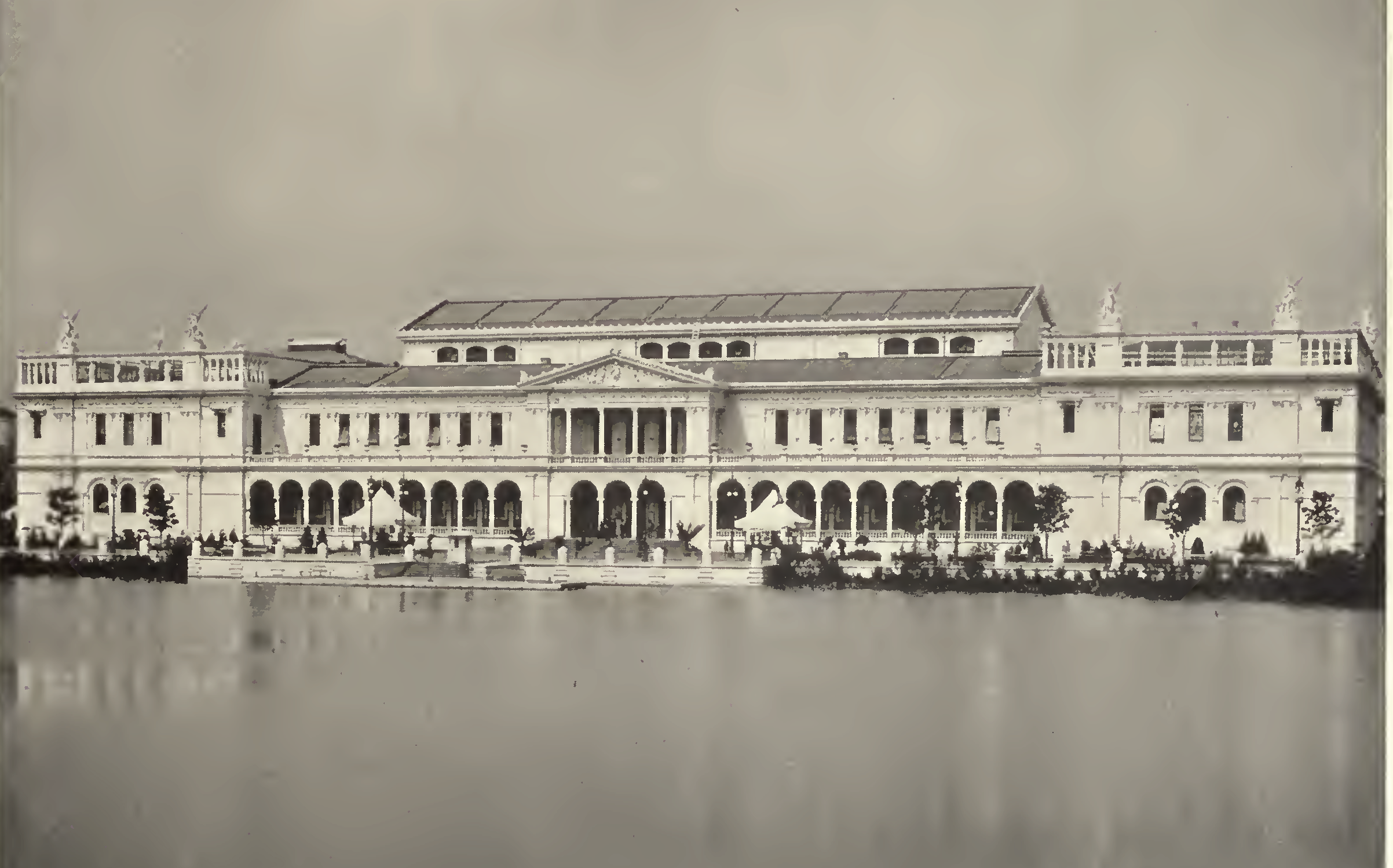 Woman's Building. World's Columbian Exposition (1892 : Chicago, Ill.).